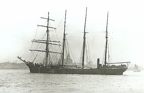 SV 'Sound of Jura' (1896) - 4-masted barquentine